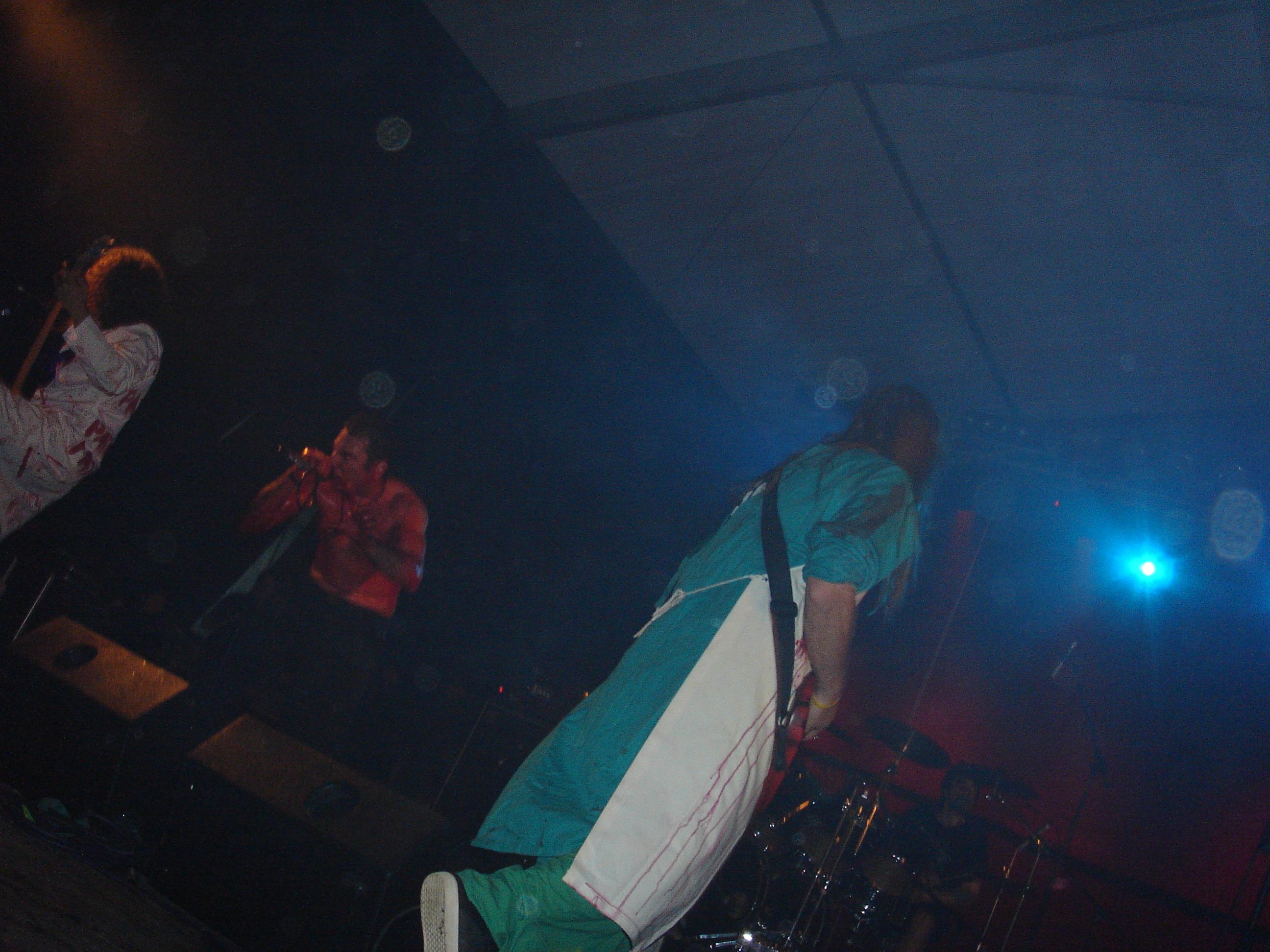 Spanish band Haemorrhage peforming live at Barroselas Metalfest (2010).